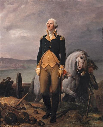 A portrait of George Washington